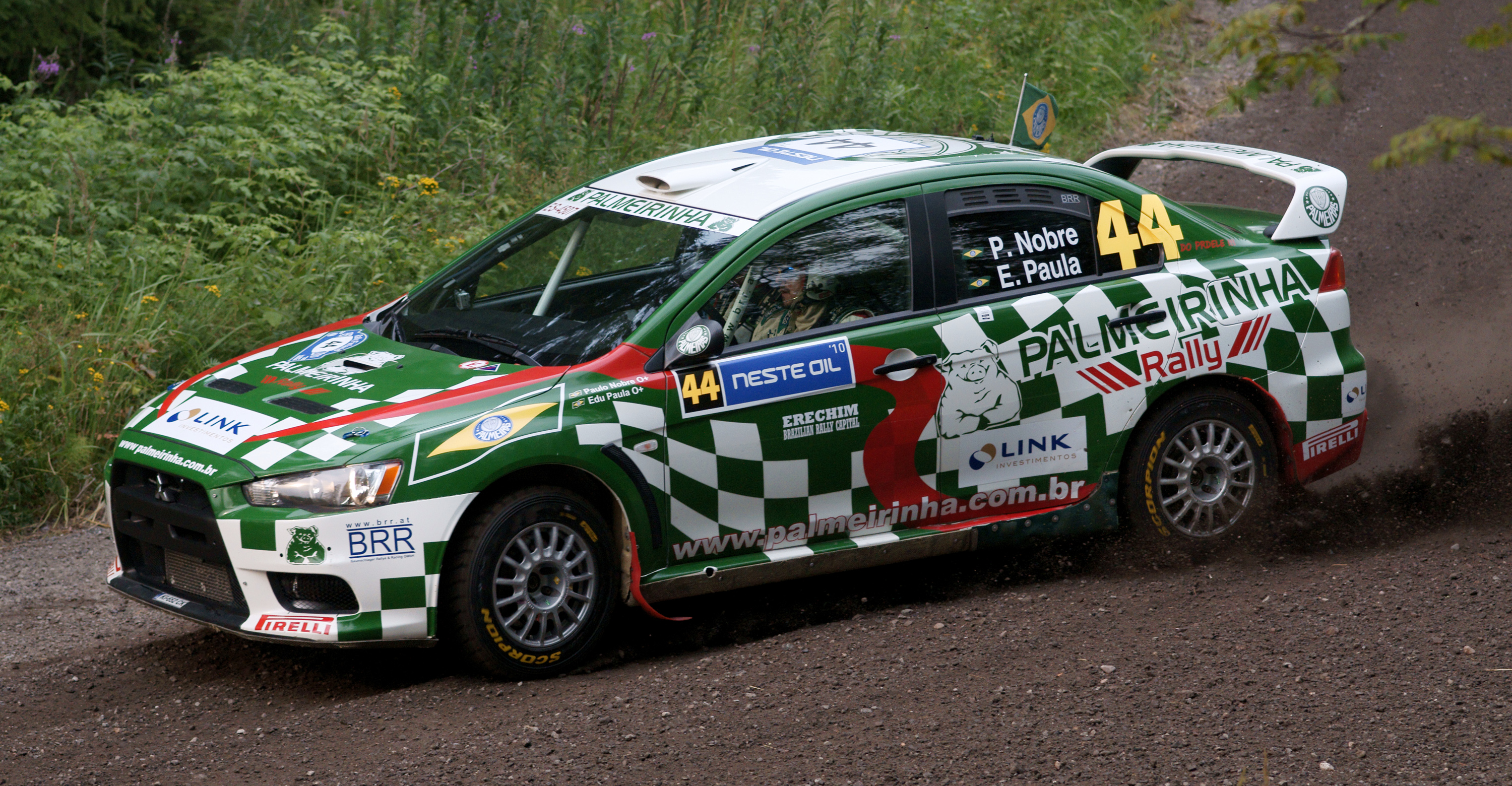 Paulo Nobre driving at Laajavuori special stage, Rally Finland 2010.